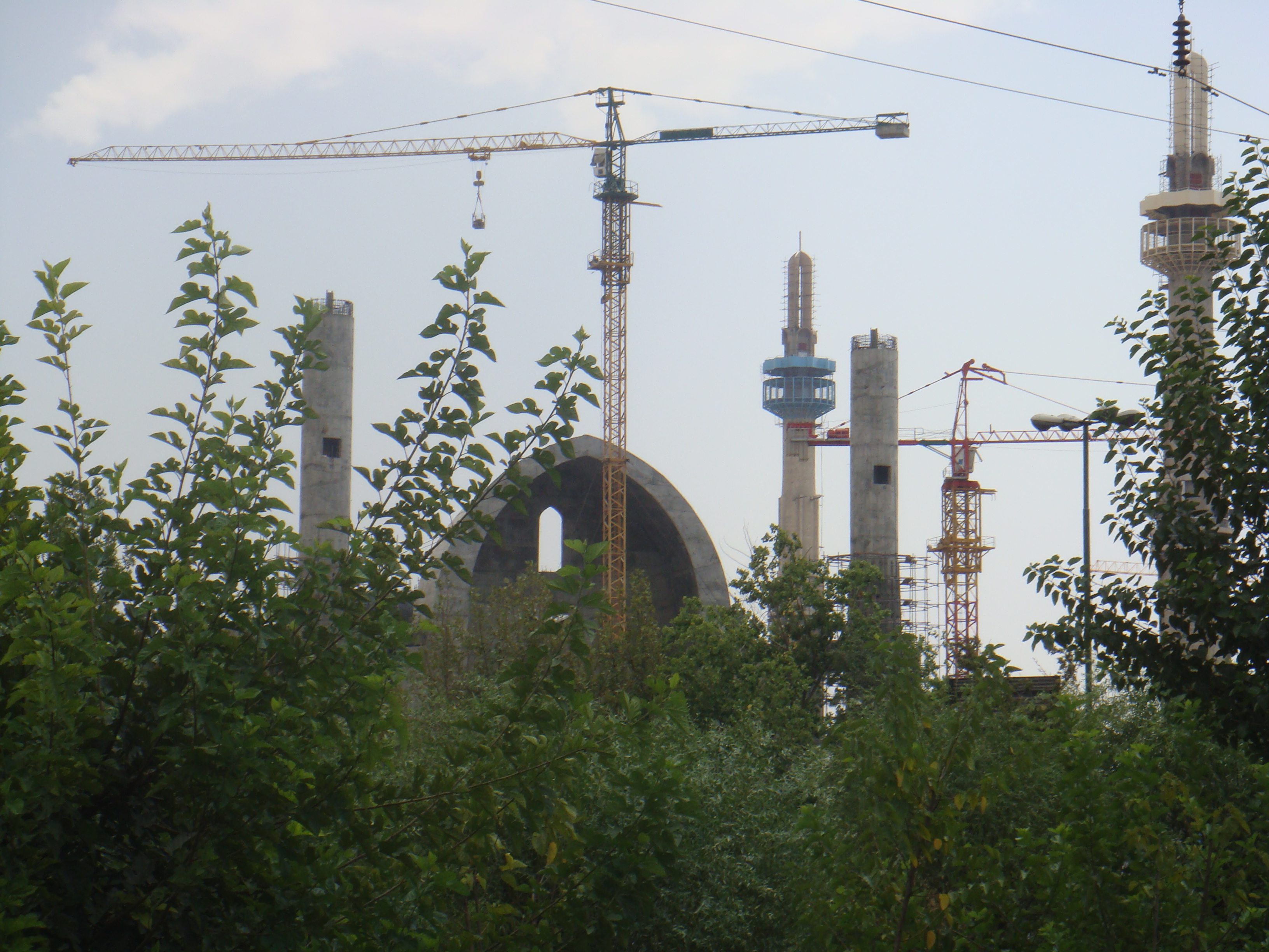 Tehran Mosalla under construction